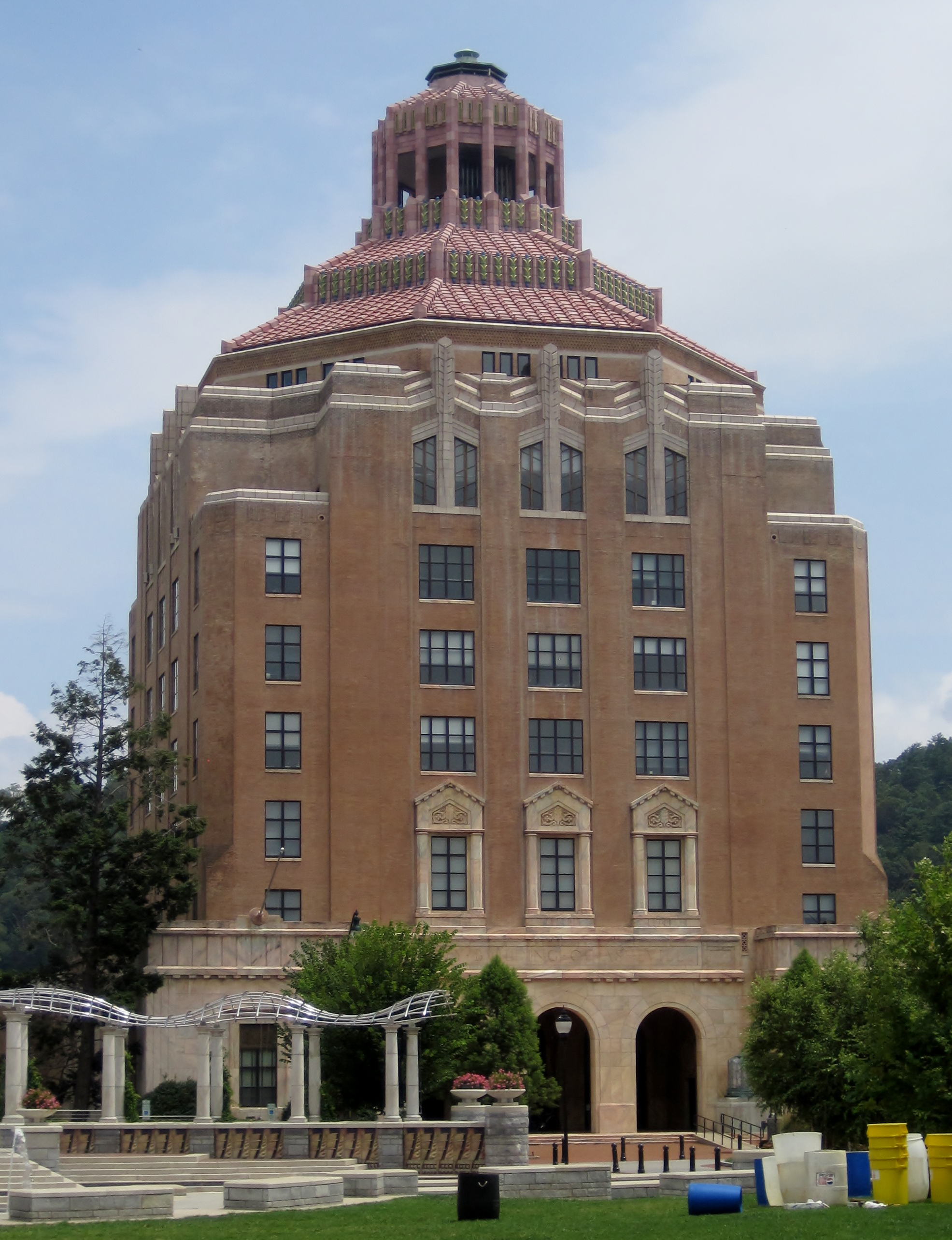 Asheville City Hall (1928). It was designed as a "twin" building with the Buncombe County Courthouse. However, the governments of the city and the county couldn't agree on an architect. The city preferred the modern architecture of Douglas Ellington while the county wanted a classical revival building. During World War II, the building was leased to the Armed Forces, which made it its world headquarters for its Weather Wing and Communications Service Branch for the Air Force.